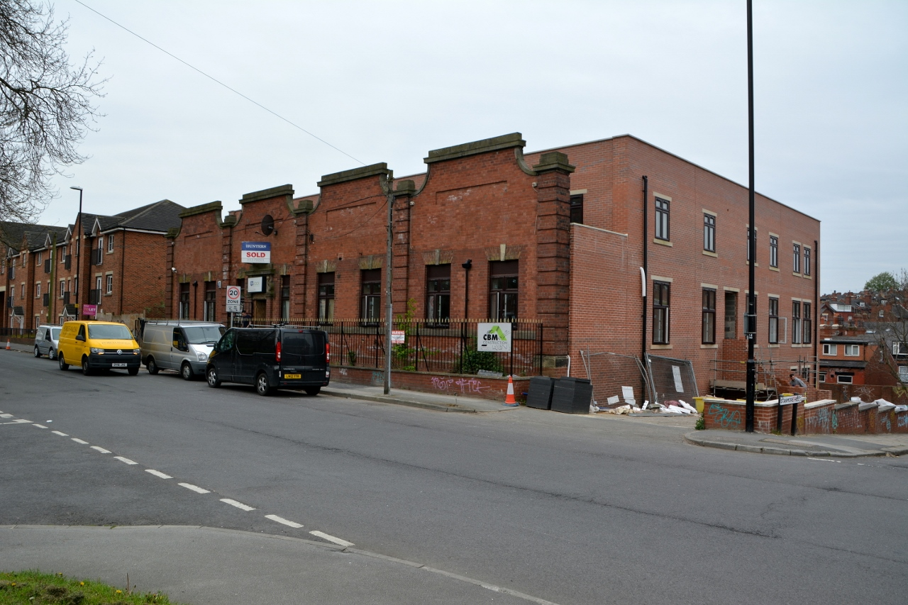 In and around Burley ... this is 57 Cardigan Lane in Leeds, which has been the site of several firms. Visionware Ltd, a software company that developed Windows to Unix connectivity products, was there during the first half of the 1990s. Later in the 1990s, Minorplanet Systems plc was sited there. During the 2000s, IM Jack plc, a maker of educational software, had its premises there.